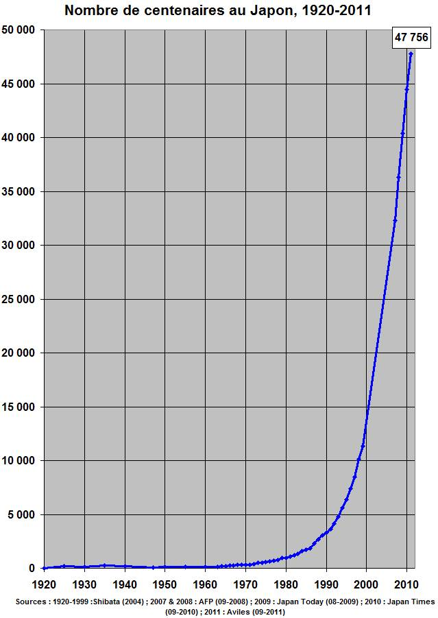 Number of centenarians in Japan, 1920 to 2011